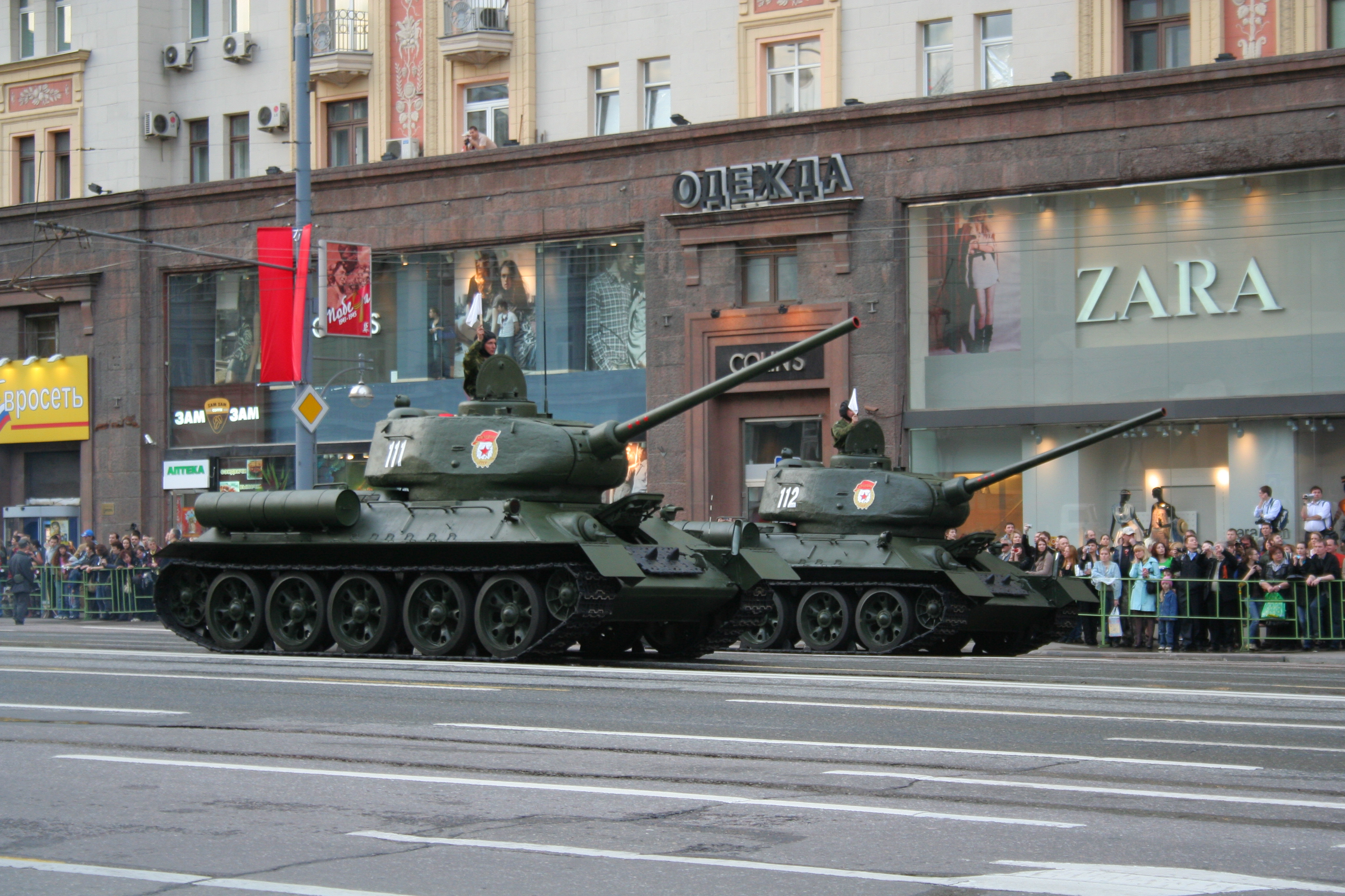 Training of Moscow Victory Parade 2010